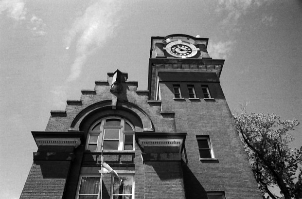 Olympus OM-4, Zuiko 28 f3.5 Adox 100 black and white film processed in HC110 Dil H for 14 min, orange filter. Taken in the Beaches, TorontoBeach Fire Hall